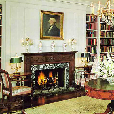 Original caption states: "Located on the Ground Floor Corridor, the White House Library features a collection of selected works to represent of a full spectrum of American thought and tradition for the use of the President, his family, and his staff."